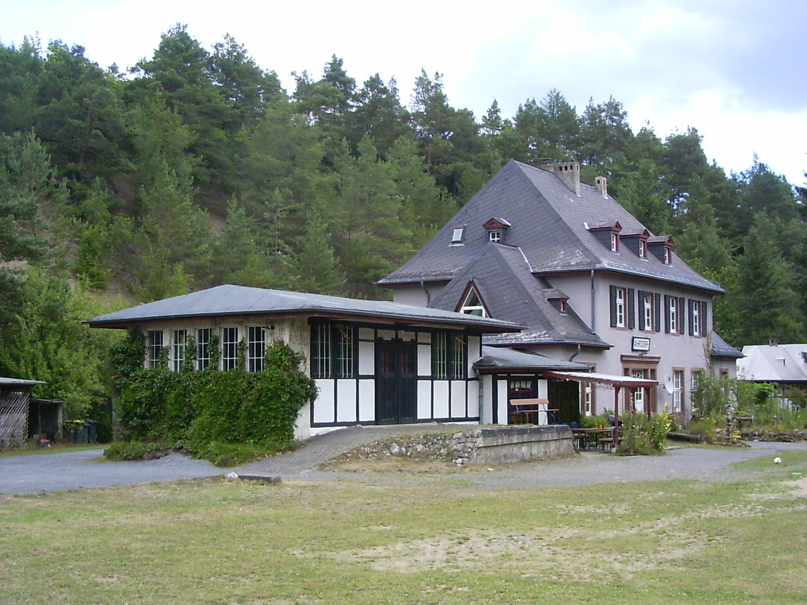 Former train station of Ahrdorf